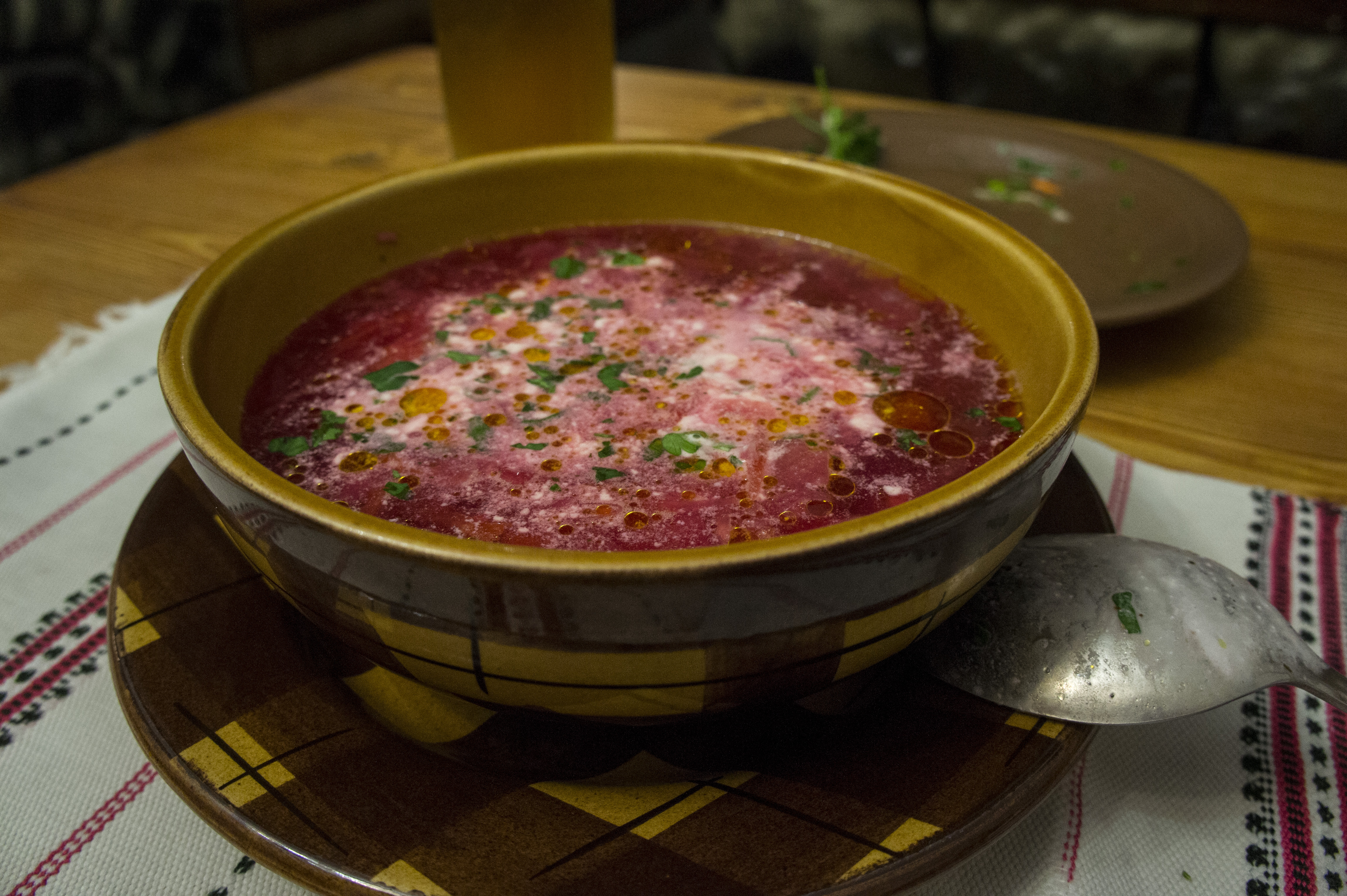 Borscht, as prepared in Lviv, Ukraine. Ukrainian national cuisine.